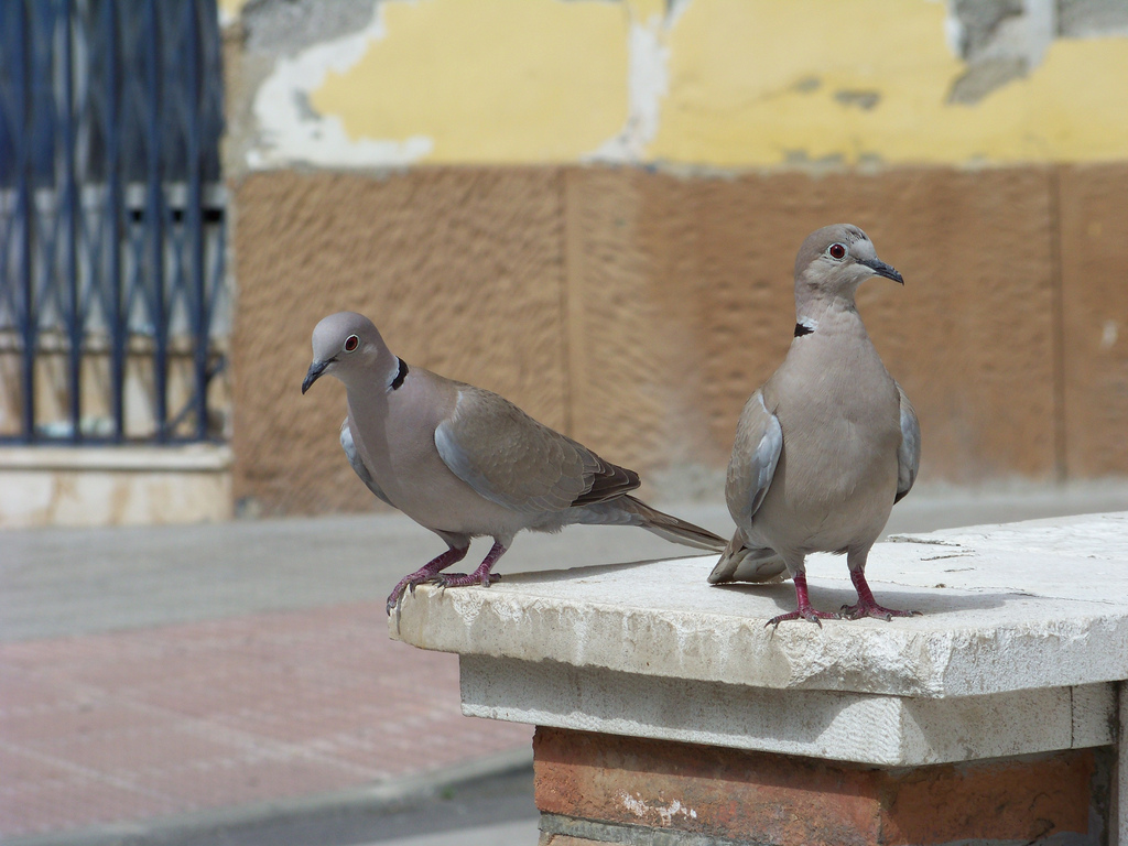 Streptopelia decaocto in Malaga City